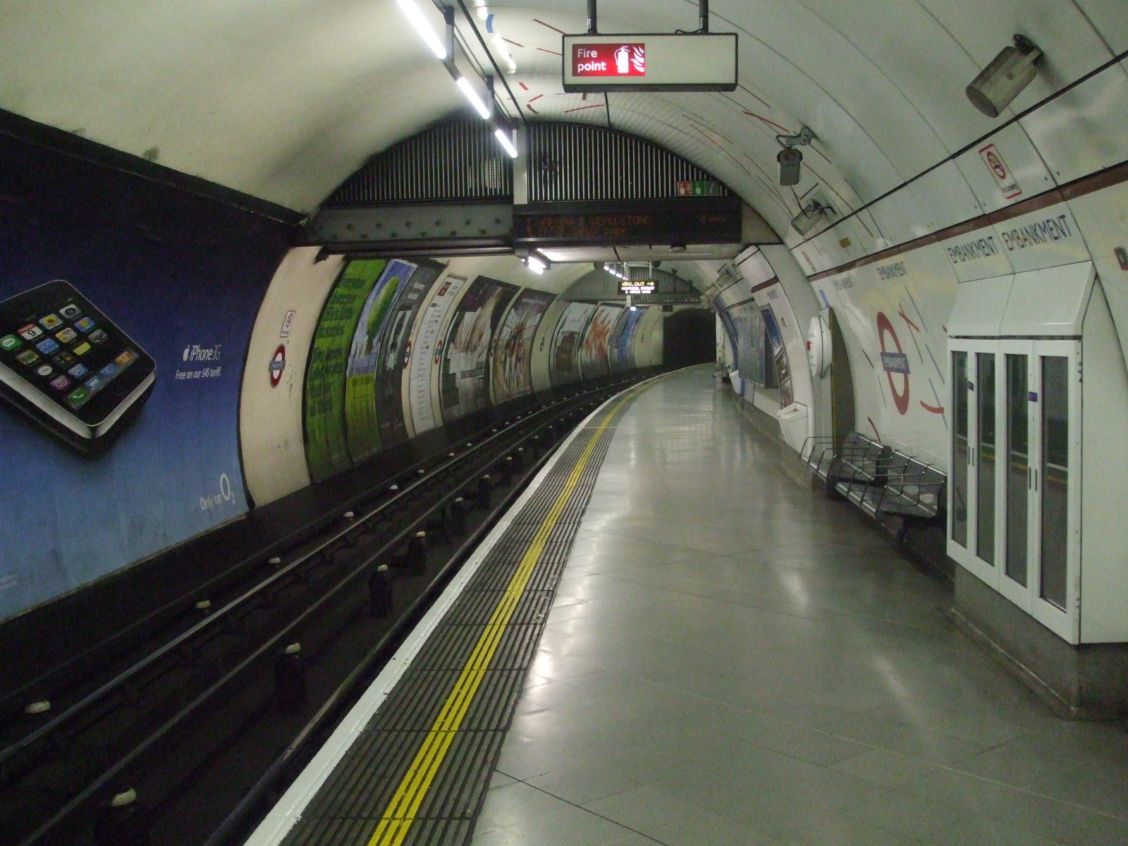 Embankment tube station northbound Bakerloo line platform looking south